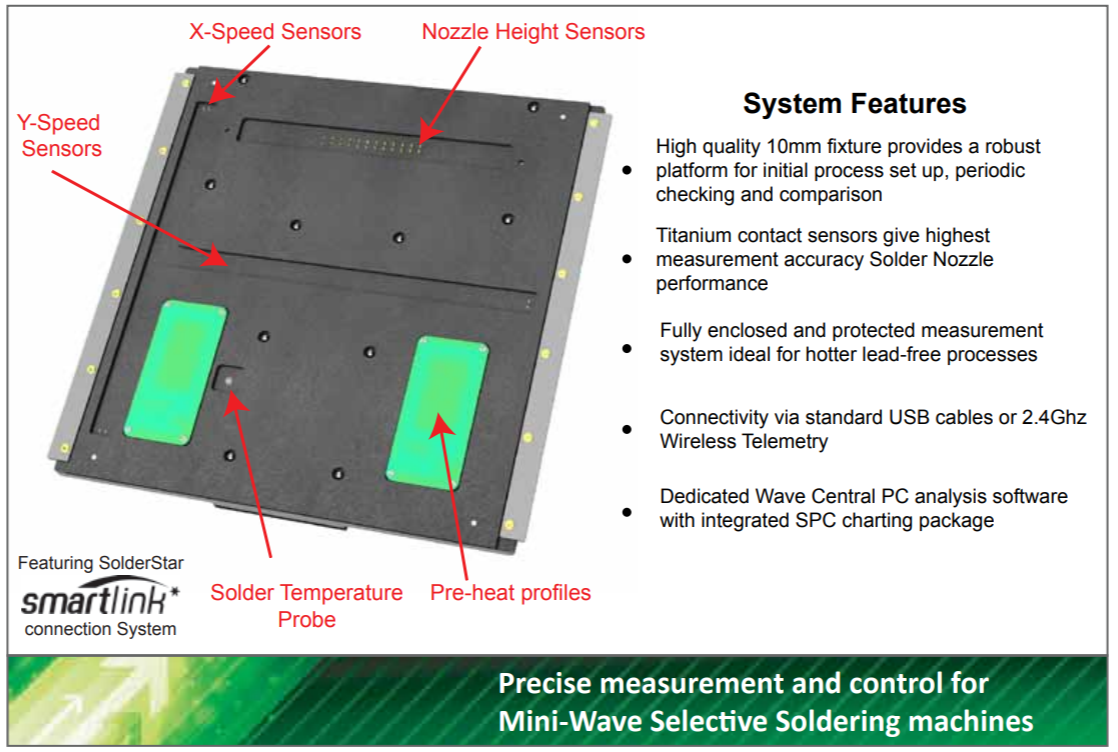 Selective soldering machine optimizer pallet example, showing sensor and fixture configuration.